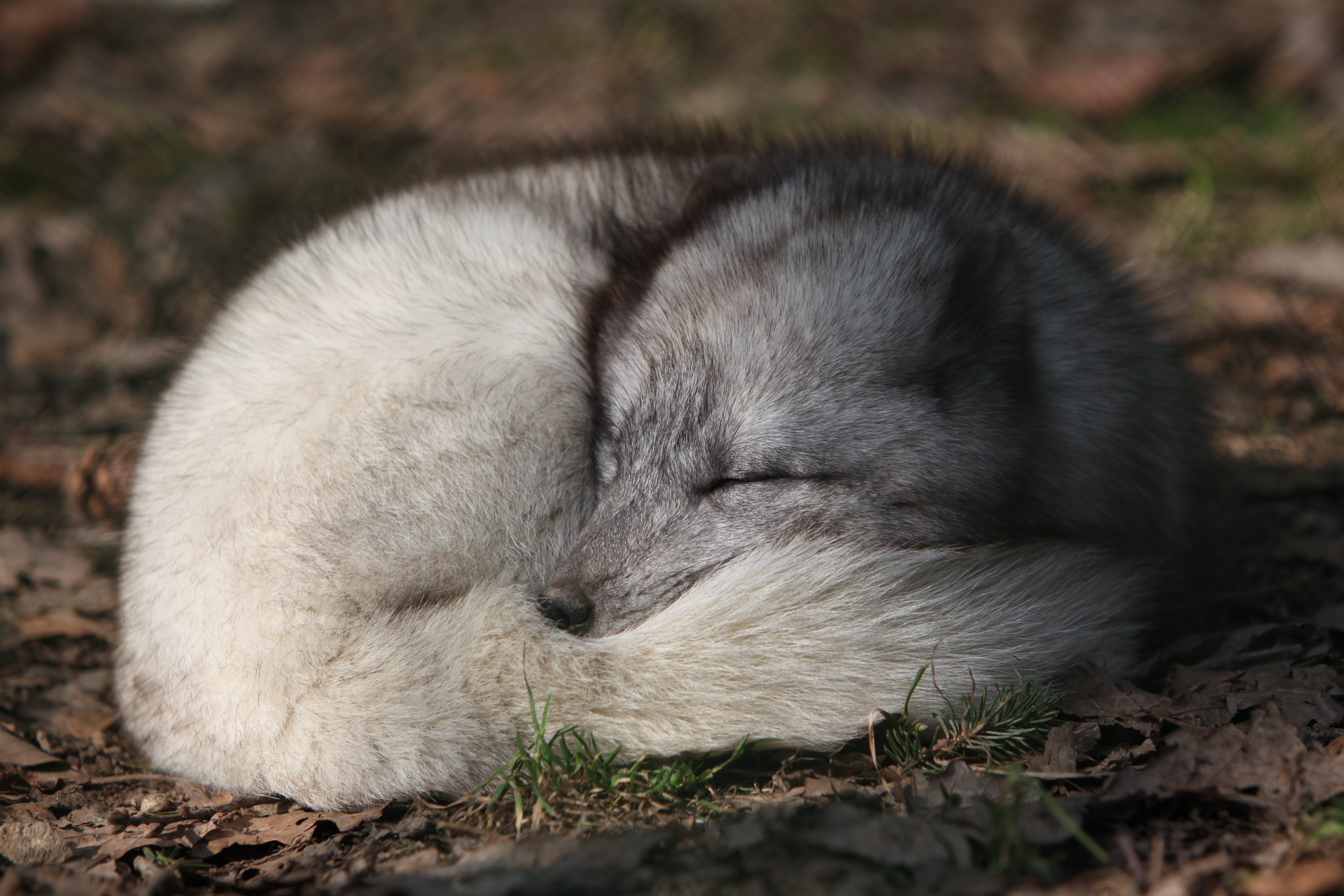 Alopex lagopus in captivity.